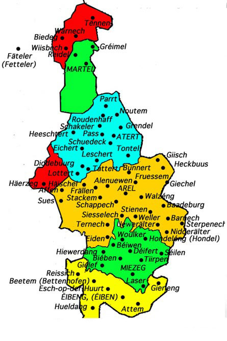 Arelerland plan